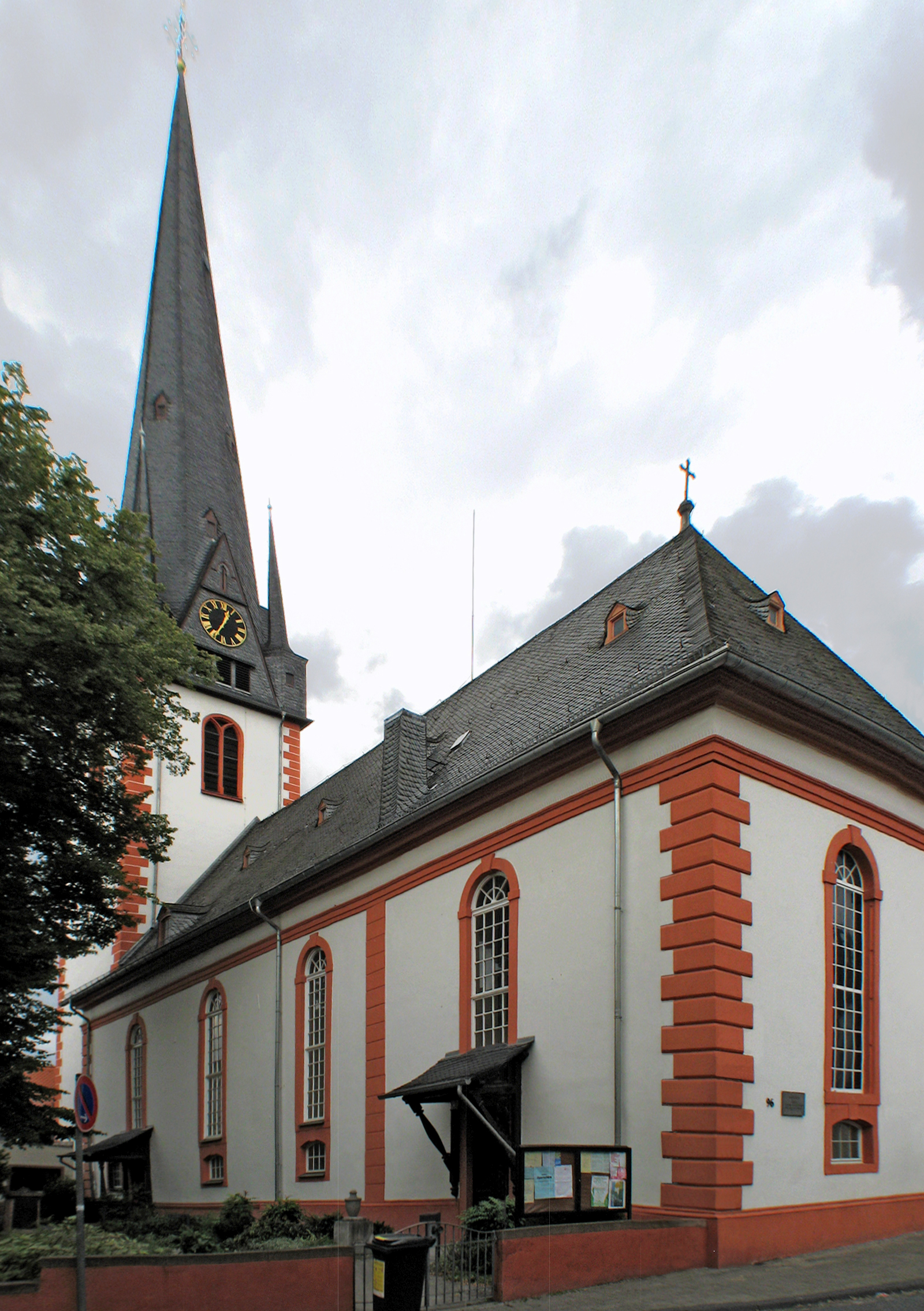 Hauptkirche in Wiesbaden-Biebrich, Germany